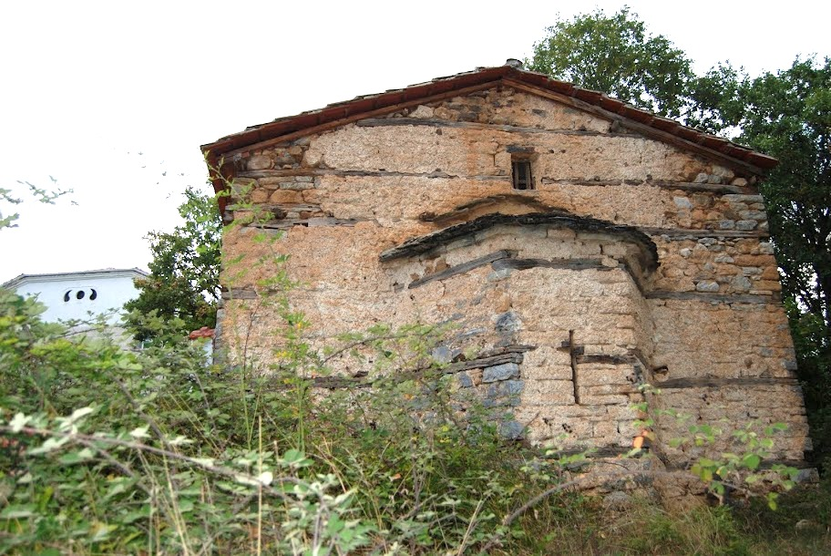 Gabresh, Church of Sveti Nikola Stari aka as St. Modestus, 16th c.